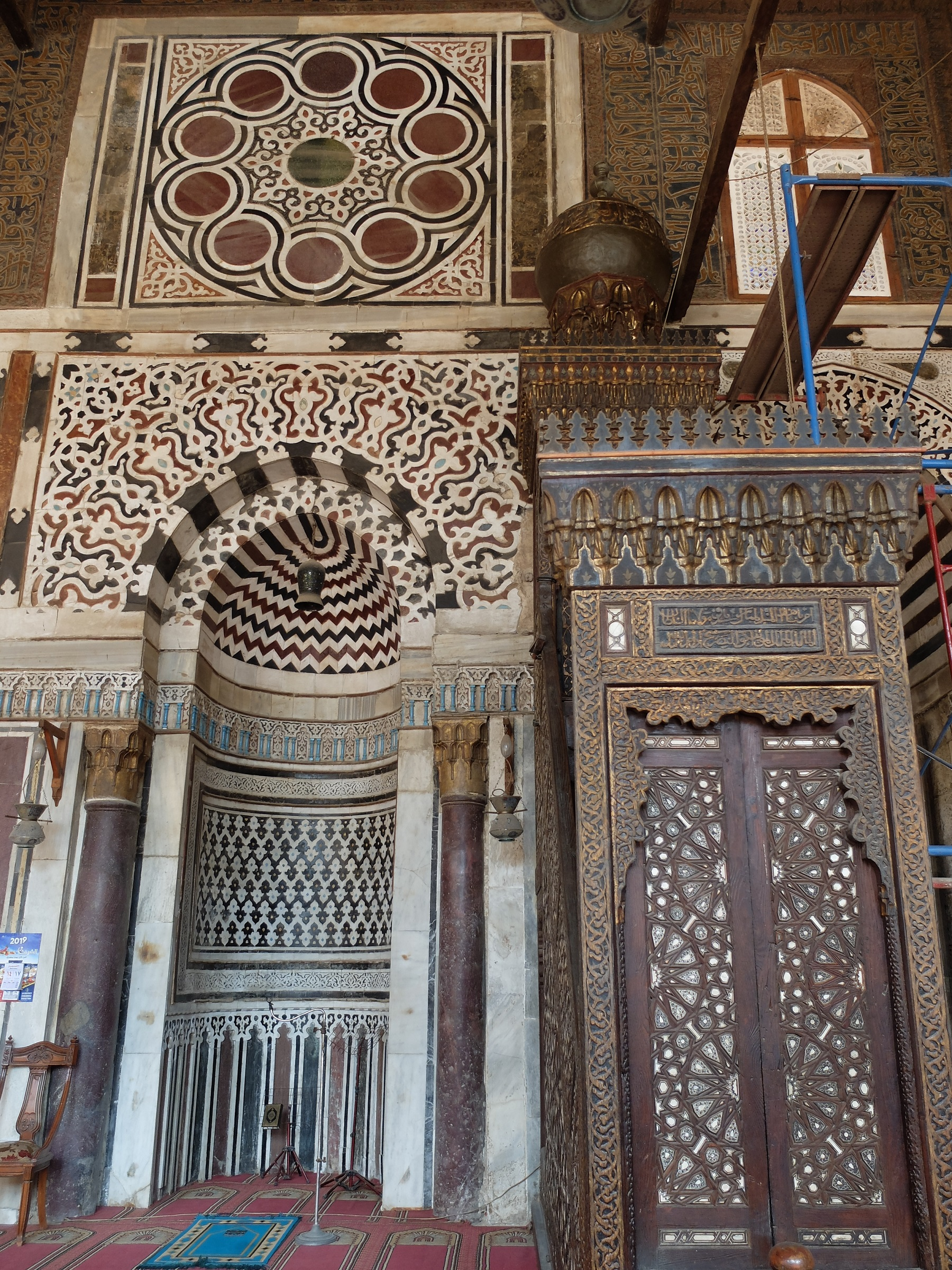 The richly decorated mihrab of the Mosque of Sultan al-Mu'ayyad, and the minbar on the right.